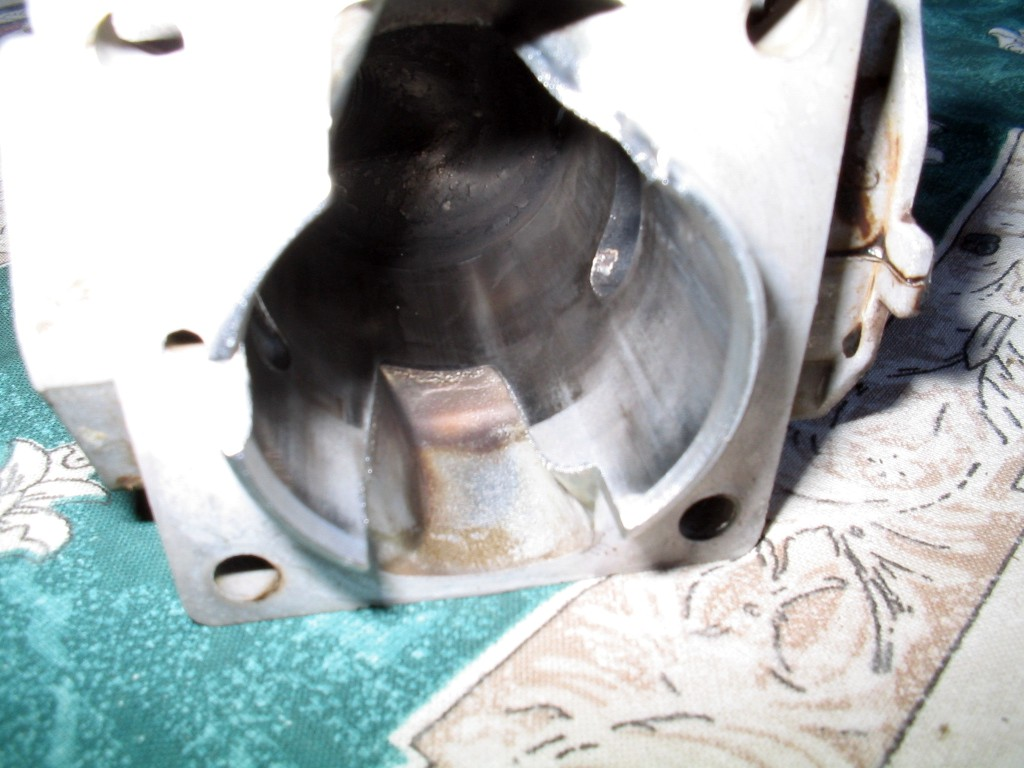 Pouring a two-stroke engine, the cylinder excavated